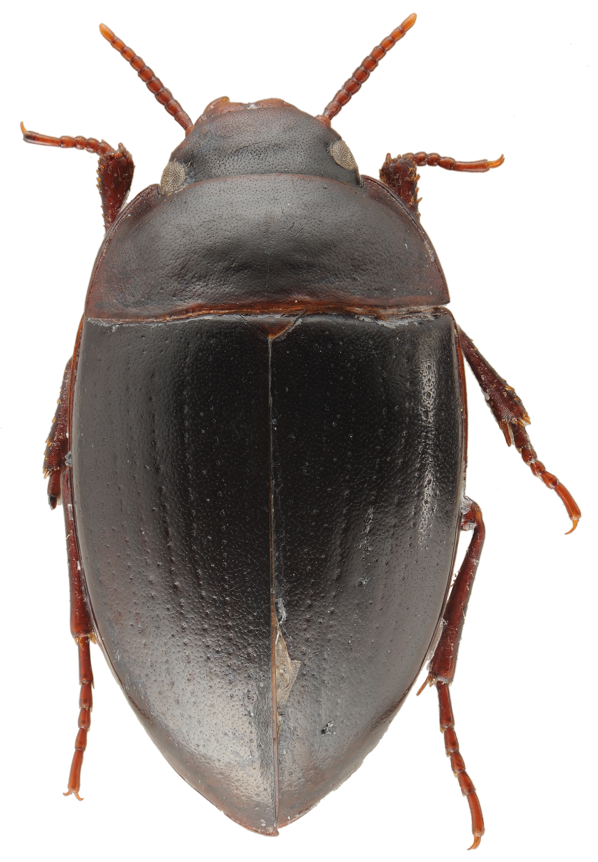 Aspidytidae, Aspidytes wrasei Balke, Ribera & Beutel, 2003, dorsal habitus